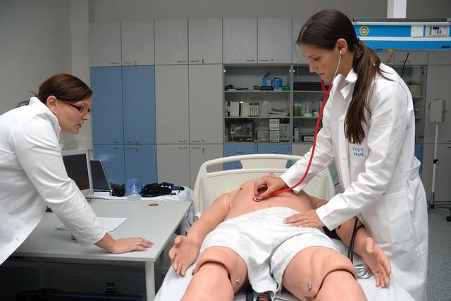 Students working with an artificial patient (Faculty of Biomedical Engineering, CTU in Prague)